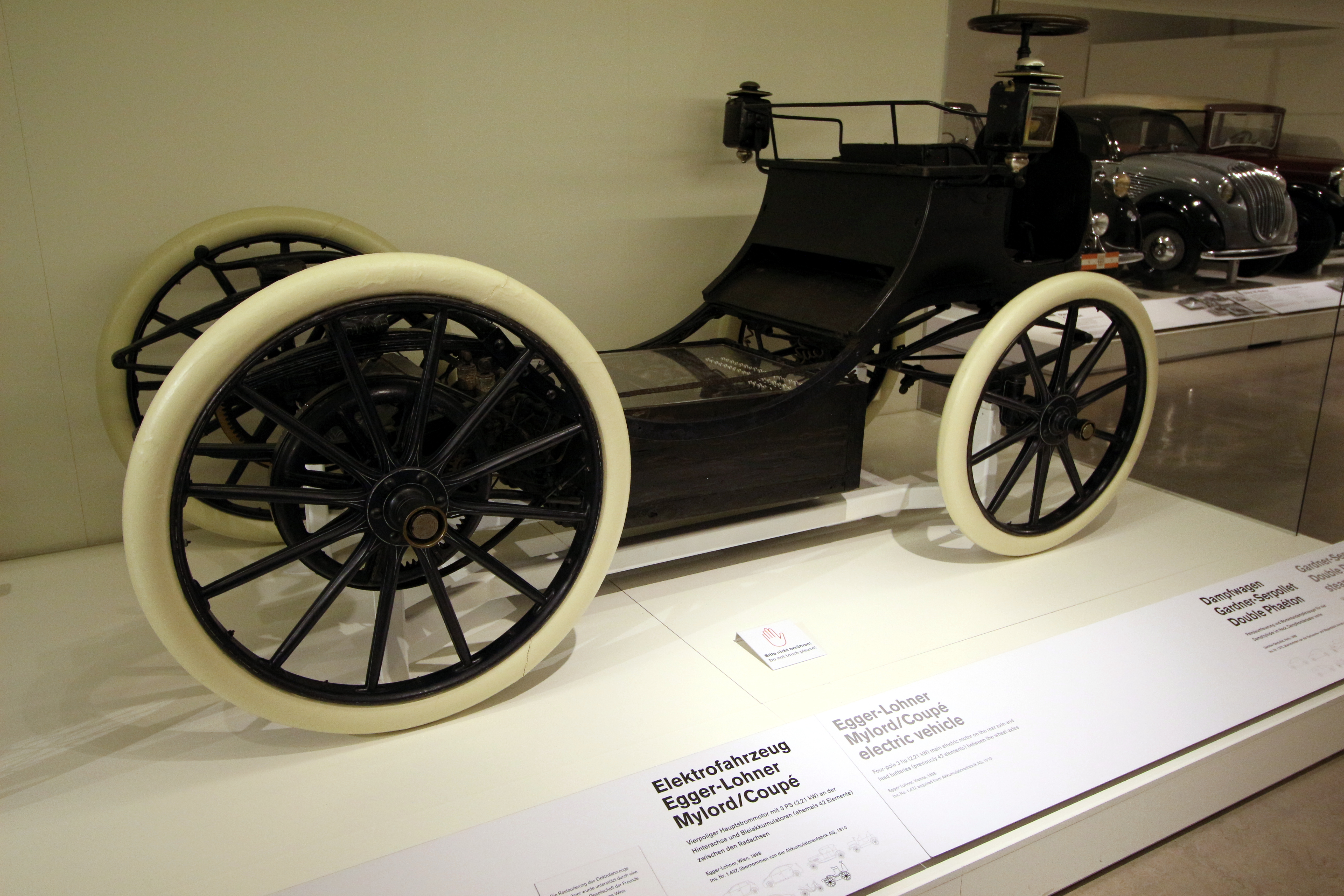 Electric automobile Egger-Lohner, four-pole 3 hp (2.21 kW) main electric motor on the rear axle and lead batteries (previously 42 elements) between the wheel axles.